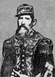 Author unknown - picture was taken more than 100 years ago - found in